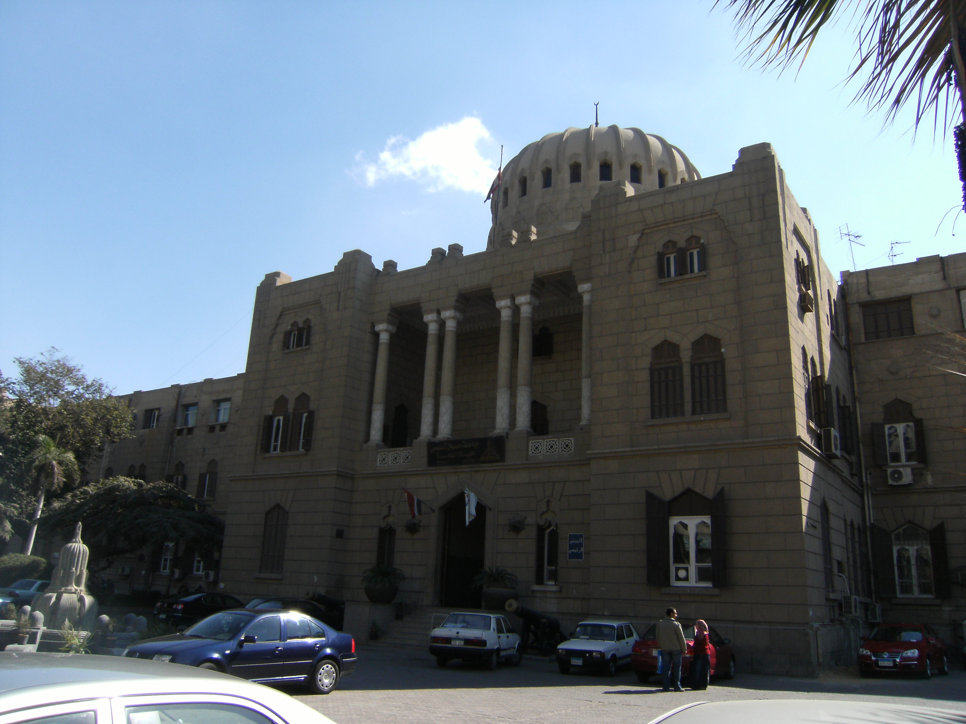 Faculty of Engineering, Ain Shams University - main building.